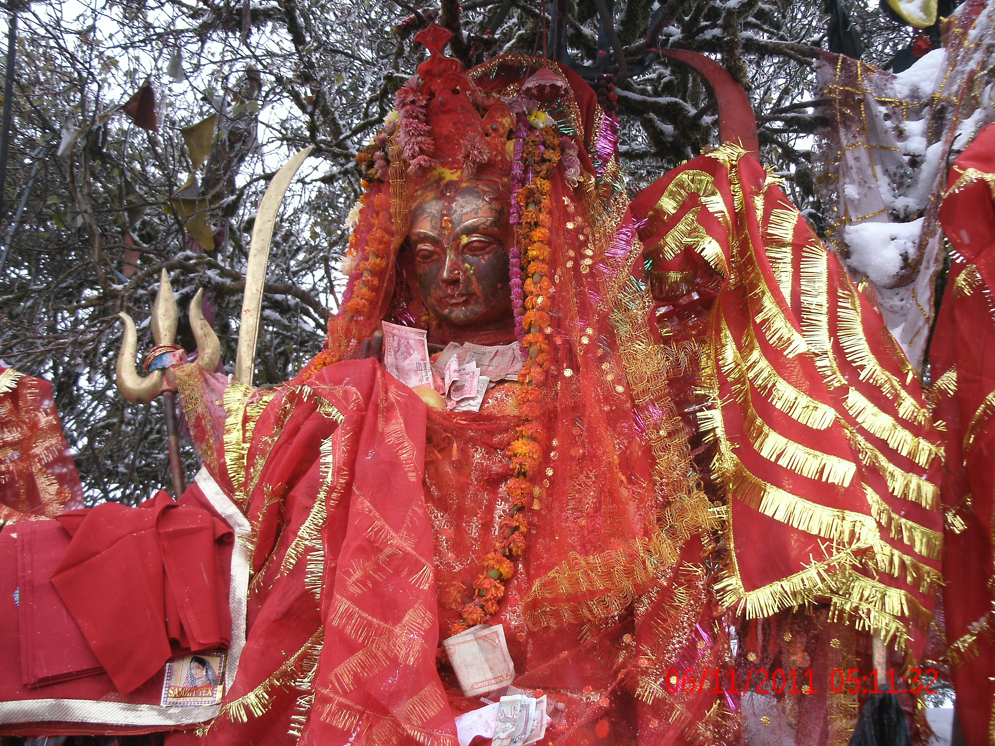 Pathibhara temple picture taken by Mr. Amar Karki.